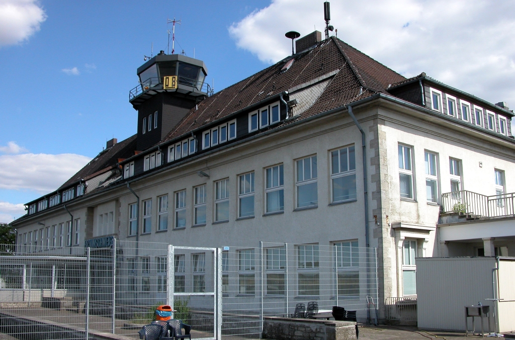 Brunswick, Germany: Main building of Braunschweig-Wolfsburg Airport, as seen from the runway.